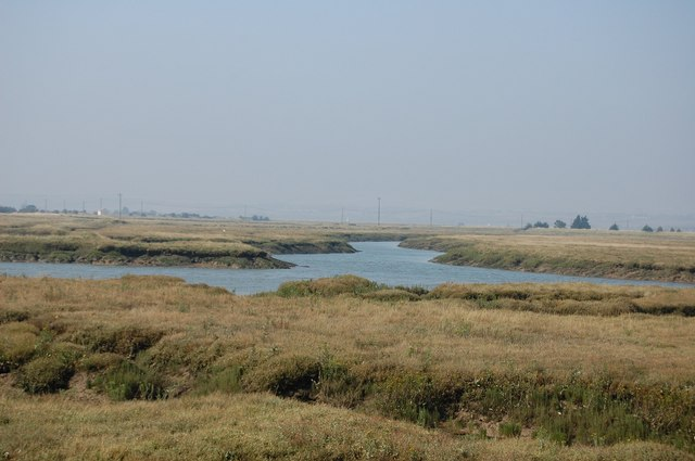 Paglesham Creek, Paglesham Churchend At this point one arm of the creek (ahead in the photo) moves north to make Wallasea an island. The branch to the left leads close up to Paglesham Churchend, while to the right is the route to the River Roach/River Crouch estuary and the sea.